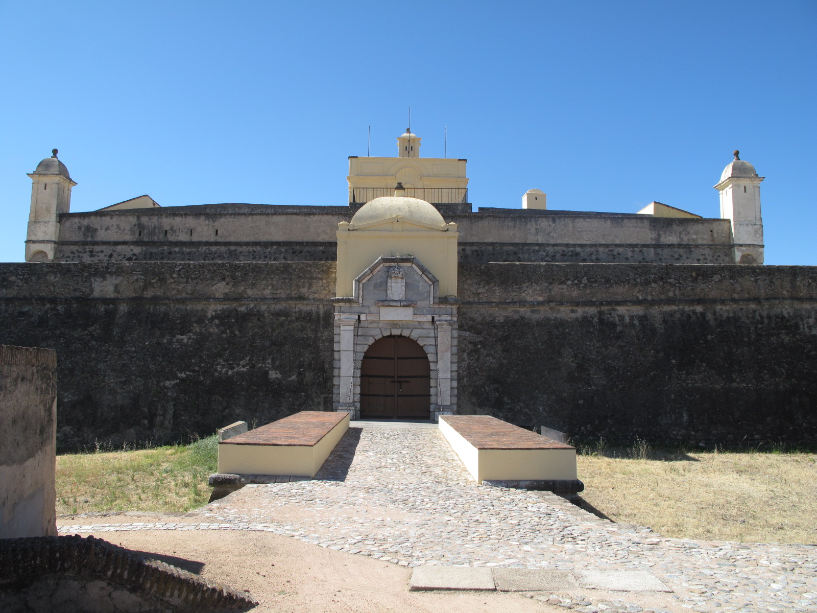 This file was uploaded for Wiki Loves Monuments in Portugal with the unique identifier 70196.